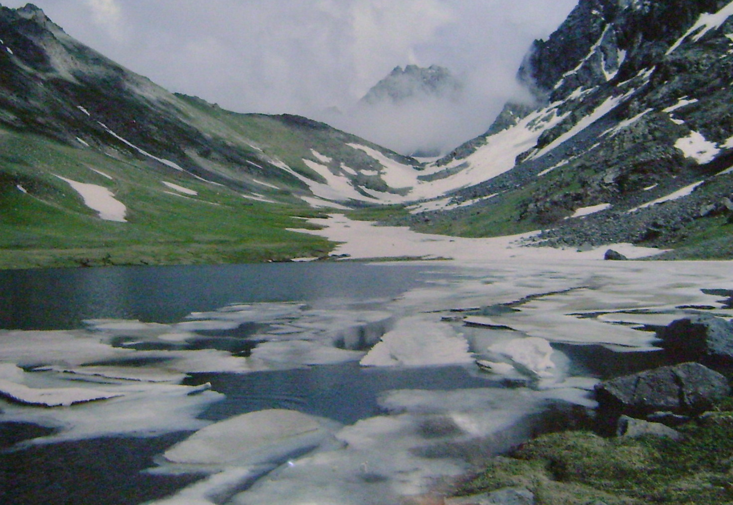 Nakhchivan_Gemigaya_stone_open-air_museum